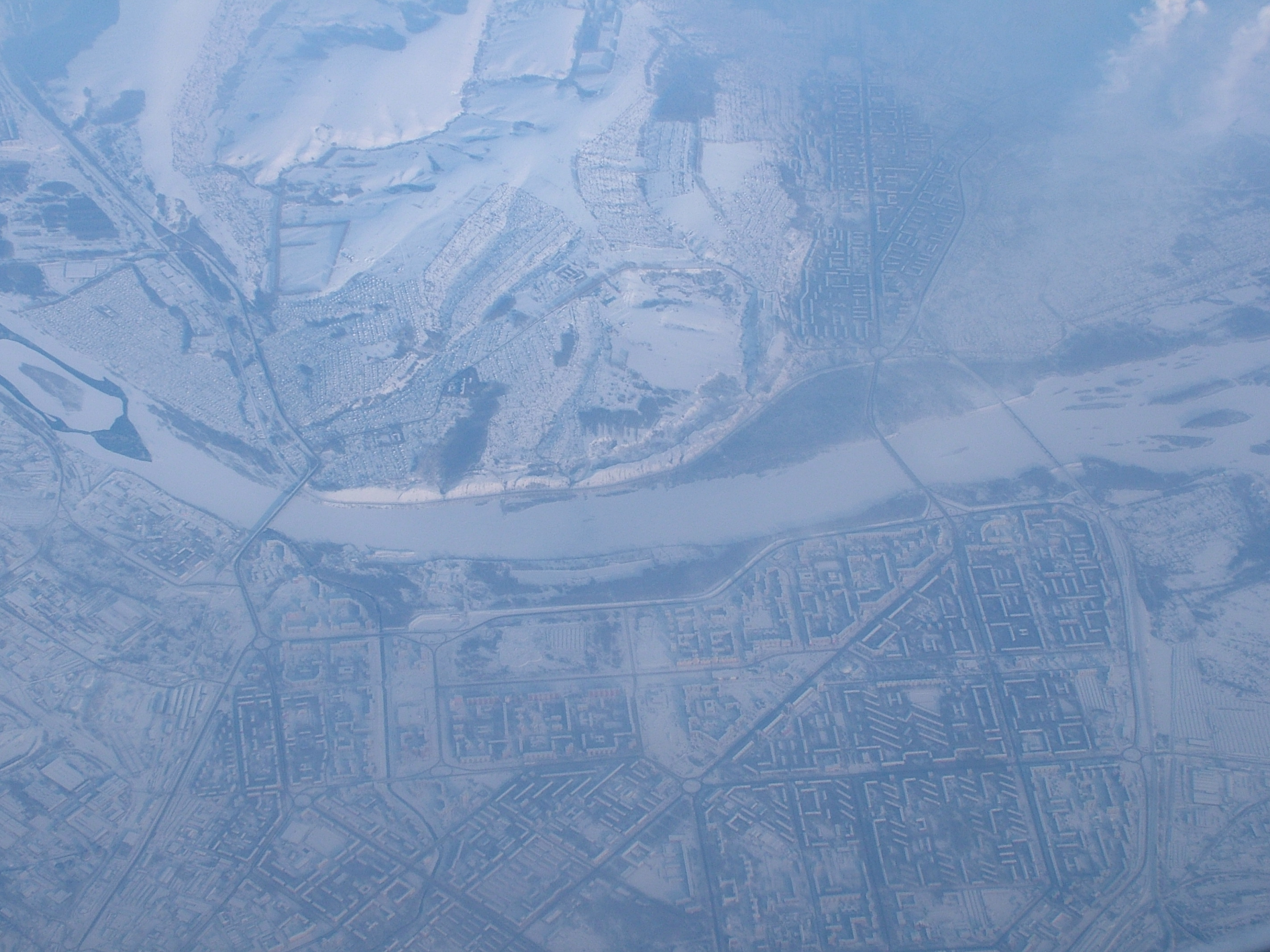 Taken onboard a flight from Hong Kong to London